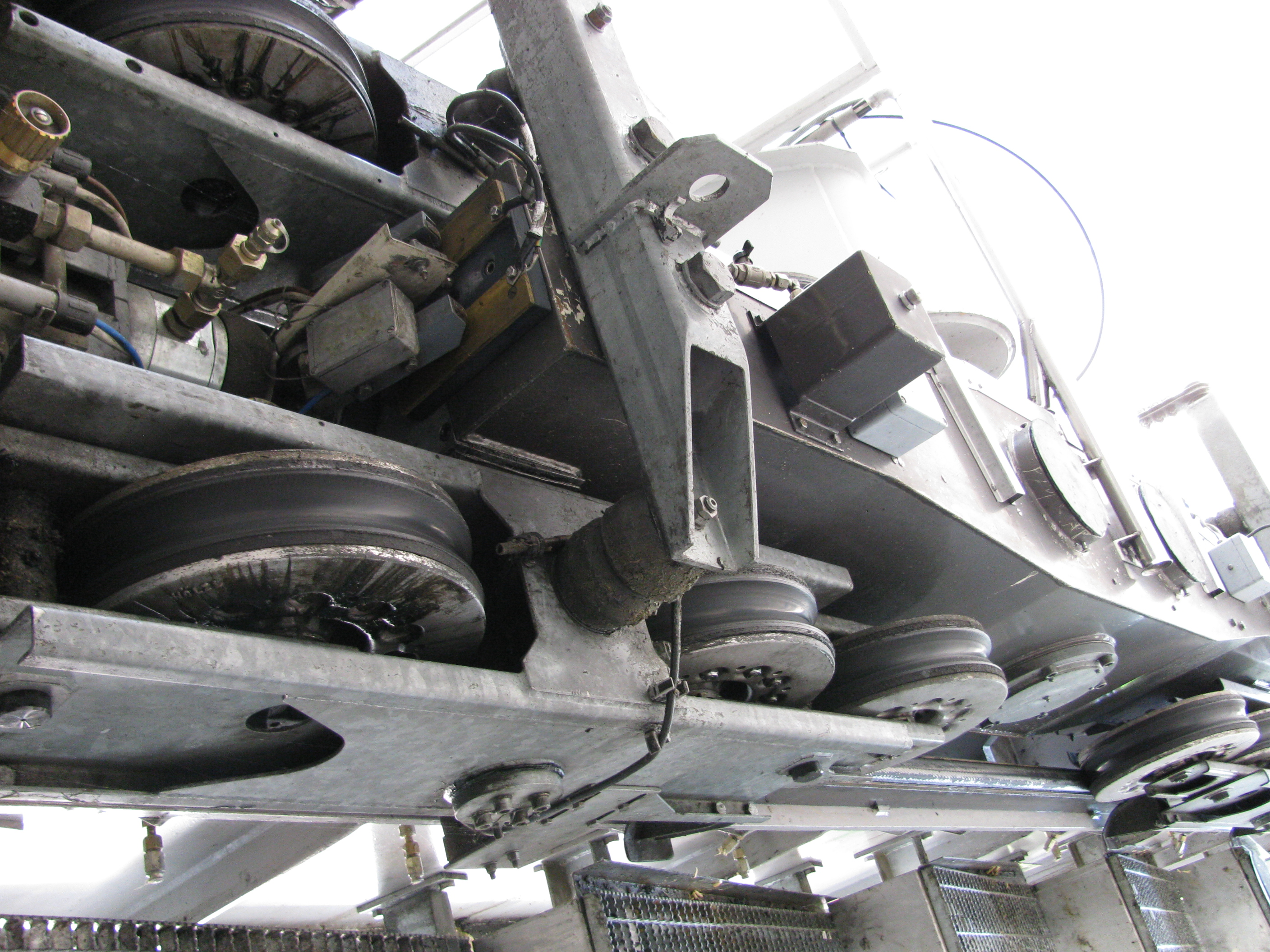 Austria - Vorarlberg - Bregenz: wheels of 'Pänderbahn'-cable car